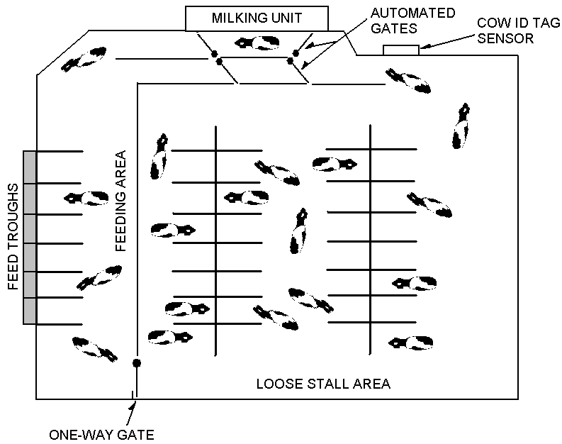 Voluntary milking system – Typical VMS stall layout (forced cow traffic layout) for dairy cattle, VMS unit at the top